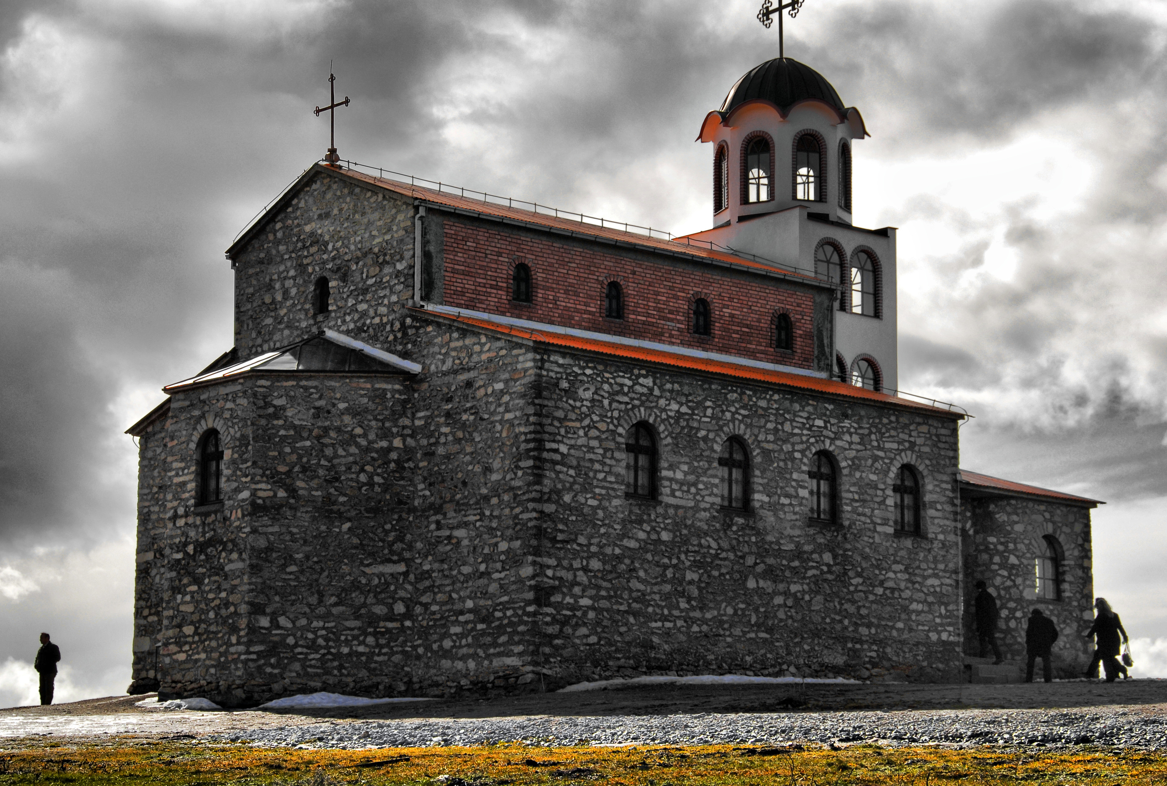 St.Preobrazenie - the church of Tose Proeski near Kruševo, Macedonia